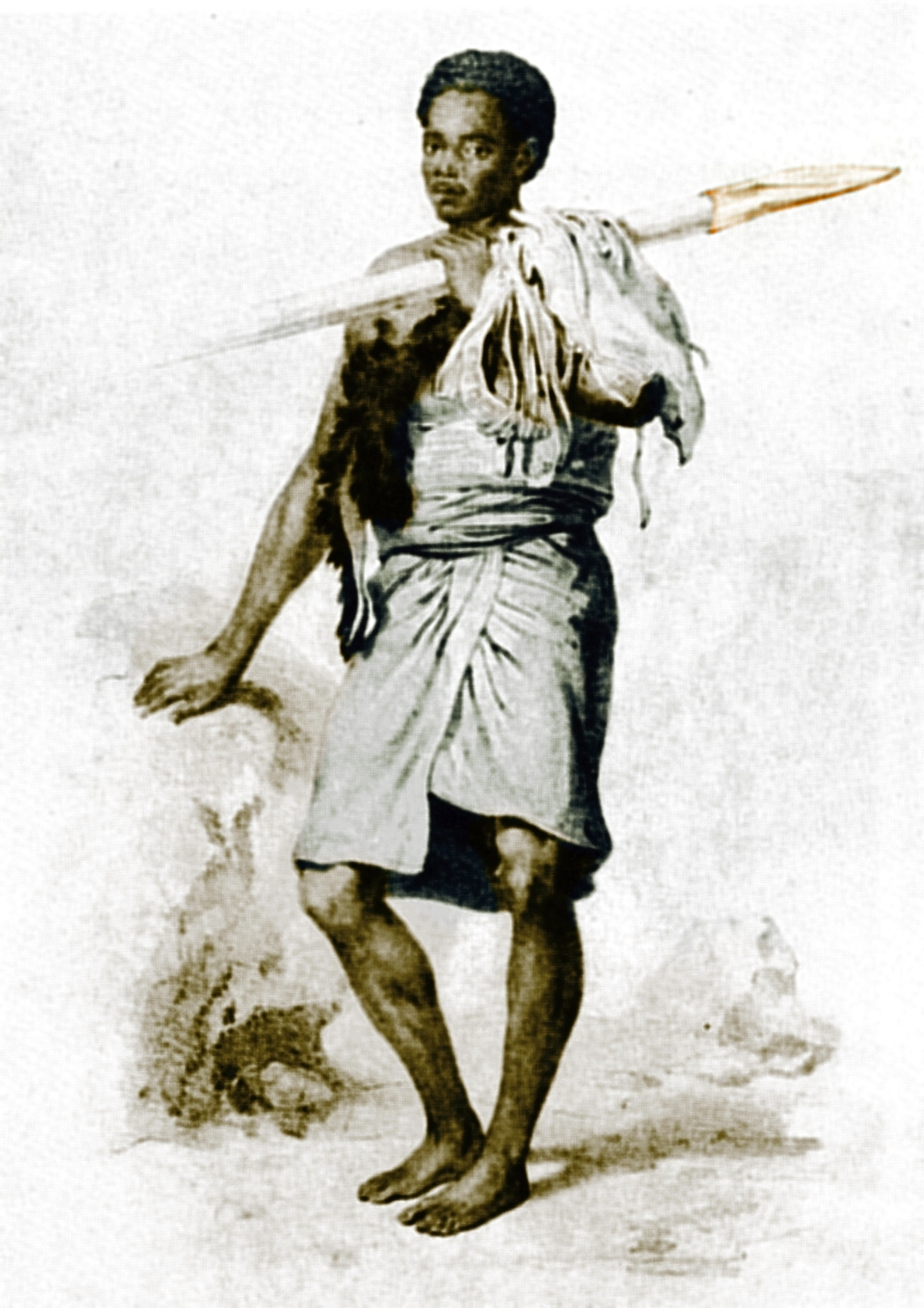 A labourer of Agame